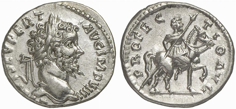 Septimius Severus. AD 193-211. Denarius (Silver, 2.85 g 12), Laodicea, 197. L SEPT SEV PERT AVG IMP VIIII Laureate head of Septimius Severus to right. PROFECTIO AVG Septimius Severus, holding transverse spear and riding horse walking to right. BMC 466. Cohen 580. RIC 494. A superb piece, bright and most attractive. Good extremely fine.